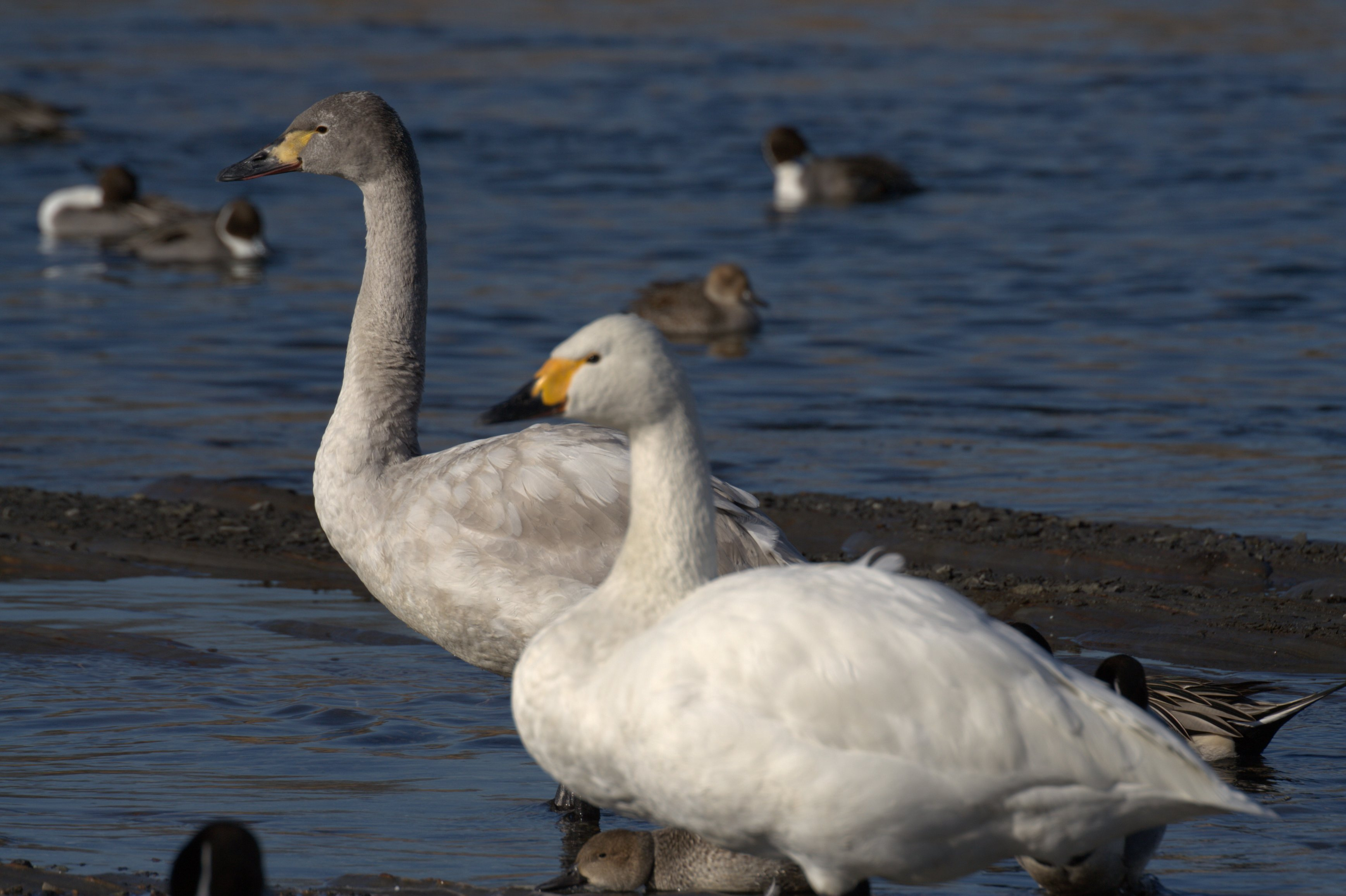 Bewick's Swan, Jan. 2006, Saitama JAPAN ; Japanese description:コハクチョウ 2006年1月 埼玉県川本町 (投稿者自身による撮影)